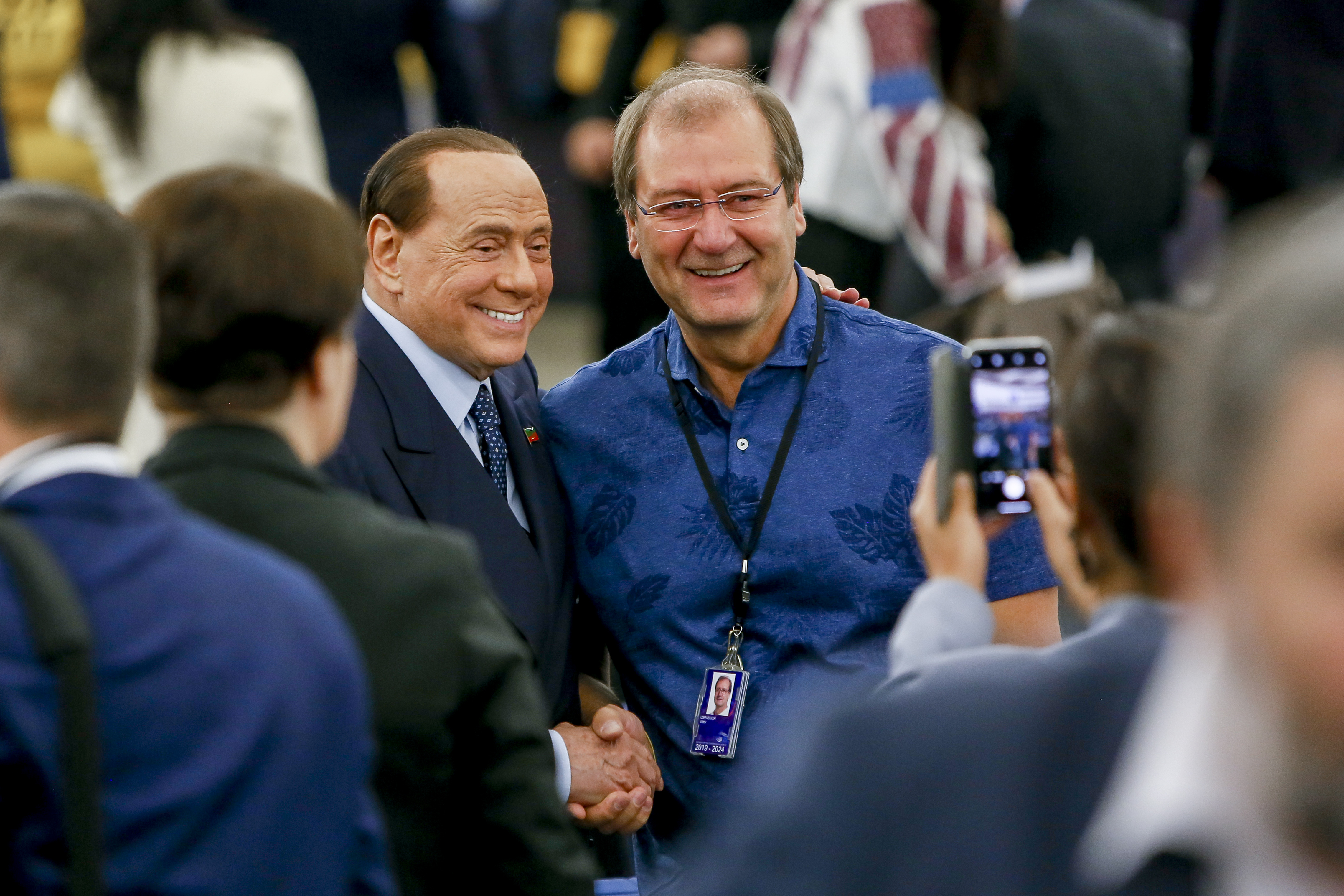 Read more: 9th European Parliament since first direct elections in 1979 starts today MEPs elected from 190 political parties in 28 member states 61% new MEPs 60% men, 40% women This photo is free to use under Creative Commons license CC-BY-4.0 and must be credited: "CC-BY-4.0: © European Union 2019 – Source: EP". No model release form if applicable. For bigger HR files please contact: webcom-flickr(AT)